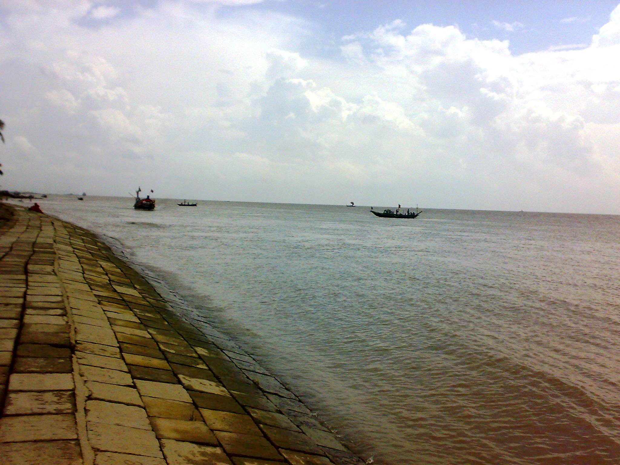 It is also called Meghna in Bangladesh. The area is called Haidergang situated in Lakshmipur district, Bangladesh. This Ghat is famous for Hilsha fish.